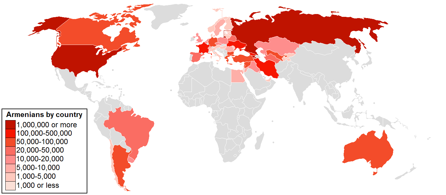 Map of the Armenian diaspora